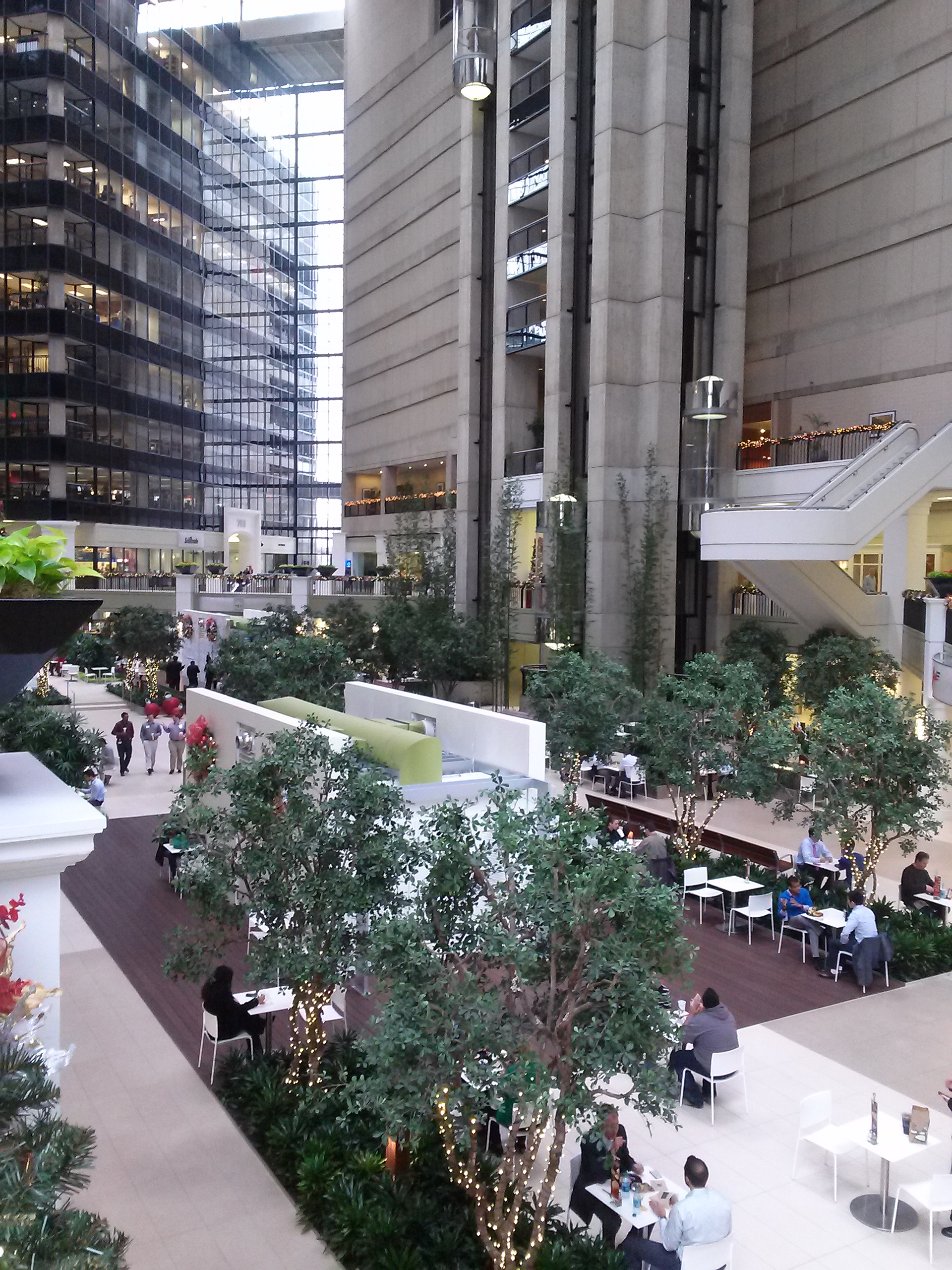 Dallas plaza of the Americas